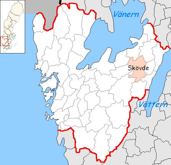 Skövde Municipality in Västra Götaland County Designed by me. Mere outlines are a PD source from